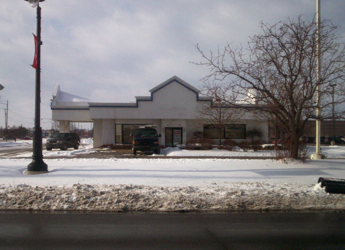 A former Kenny Rogers Roasters in Saginaw, Michigan. This has been a former Burger Chef/Hardee's?Kenny Rogers Roasters/Alltel.